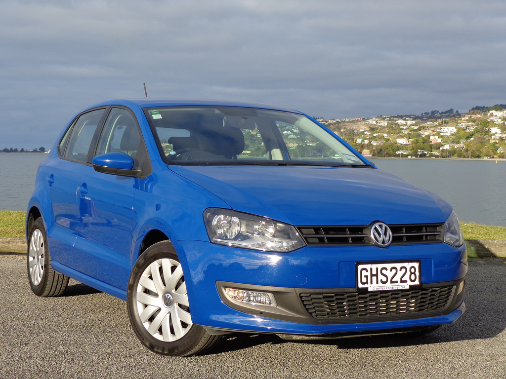 Christchurch put on some good weather for us so we headed down to the water at Ferrymead to take some photos of our 2011 Volkswagen Polo 63KW 7 speed. Car of the Year 2010. 5 star EuroNCAP rating and highly economical. Photos taken by Mark Lincoln of Miles Continental. Contact us by visiting our website ( or catch up with us over on the Miles Continental Facebook Page (